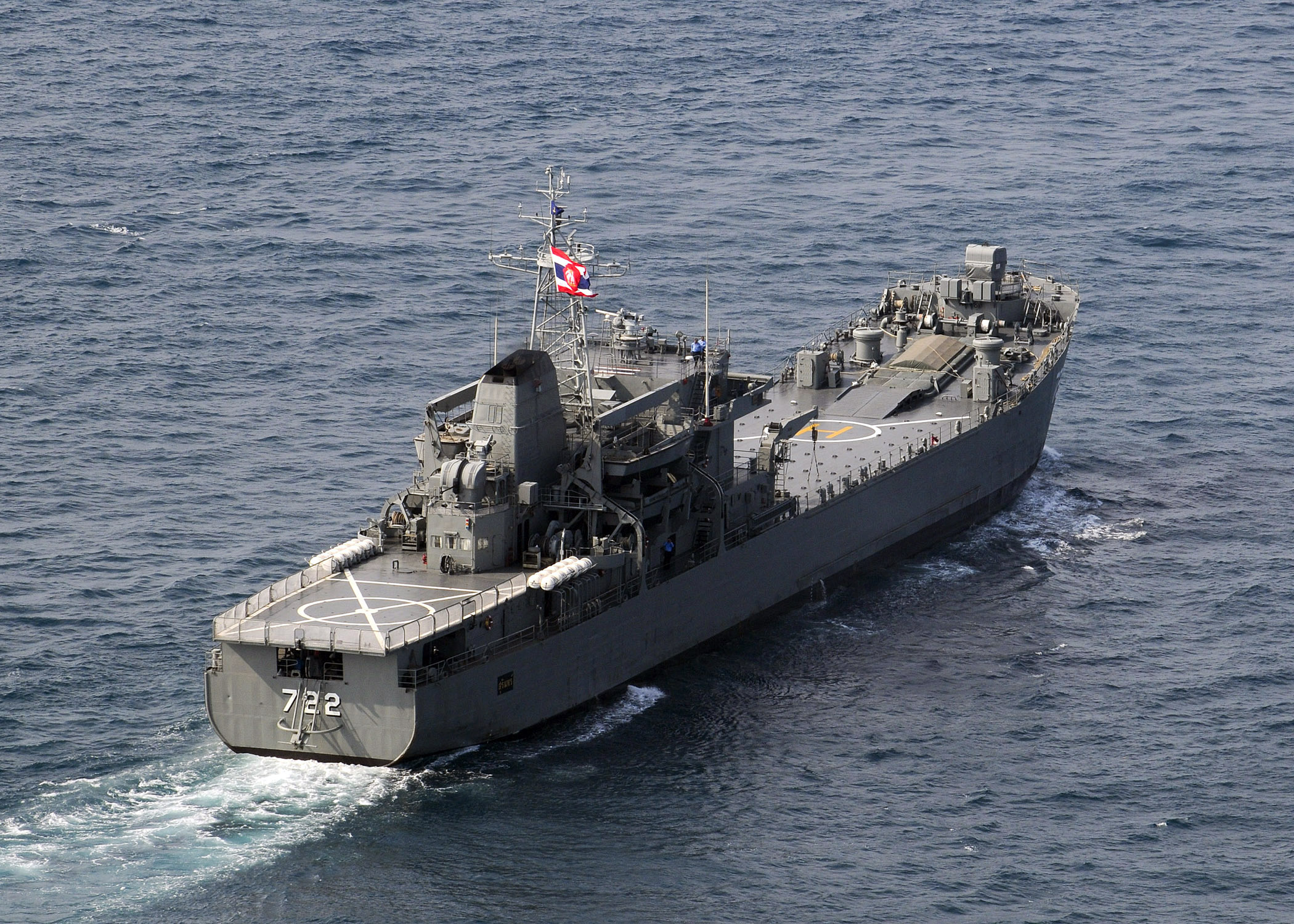 100208-N-9418A-199 GULF OF THAILAND (Feb. 8, 2010) The Royal Thai navy medium landing ship HTMS Surin, LST-722, transits the Gulf of Thailand during exercise Cobra Gold 2010, a multinational exercise co-sponsored by the U.S and Thailand.